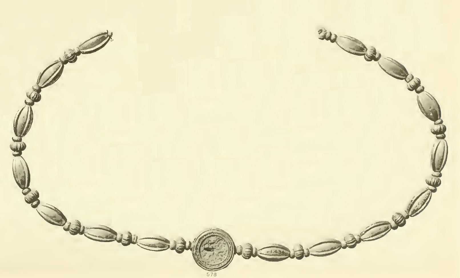 Gold Necklace.